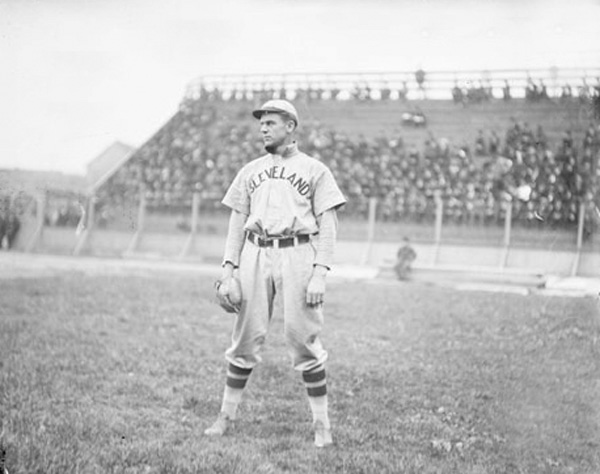 Photograph of Claude Rossman of the Cleveland Naps at South Side Park in Chicago